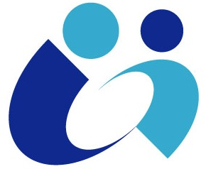 Ibigawa Gifu chapter